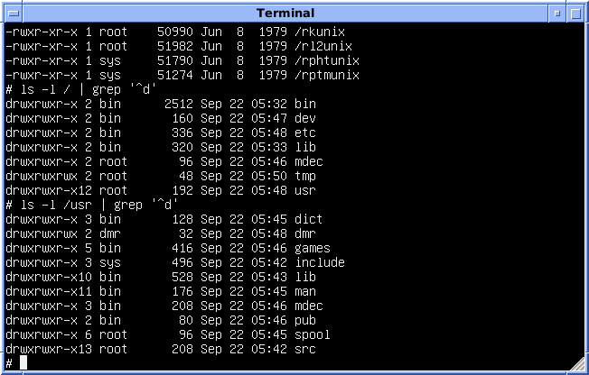 Version 7 Unix for the PDP-11, running in the SIMH PDP-11 simulator. Showing the filesystem layout for "/" and "/usr".